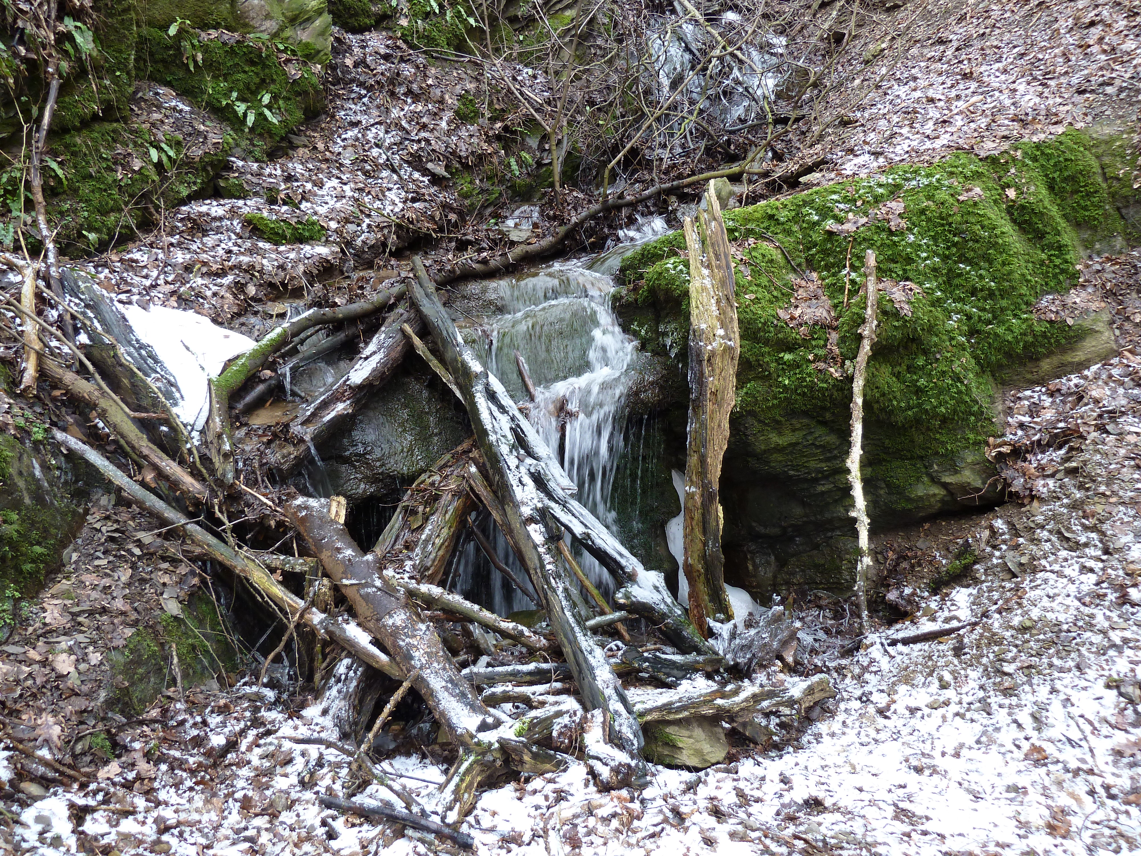 Chantoire de Grandchamp, chantoir near Adzeu, province Liège, Belgium